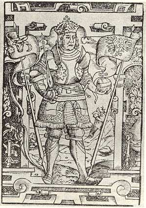 King John I Albert of Poland.